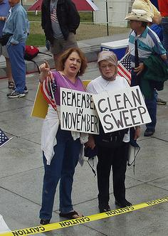 Payraise protest for PACleanSweep